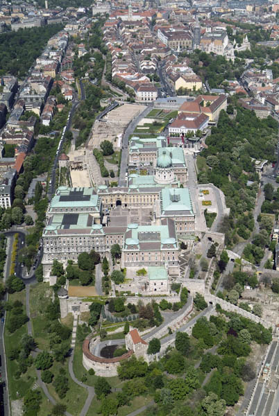 Buda, Castle, Hungary, aerial photography